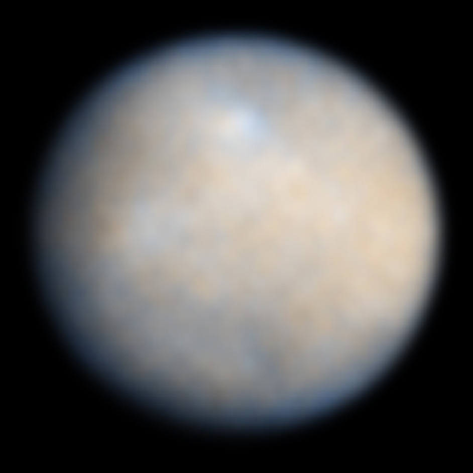 NASA's Hubble Space Telescope color image of Ceres, the largest object in the asteroid belt. Astronomers optimized spatial resolution to about 18 km per pixel, enhancing the contrast in these images to bring out features on Ceres' surface, that are both brighter and darker than the average which absorbs 91% of sunlight falling on it. (Original description by NASA) (Earth Distance: 1.64 AU and Angular diameter: 0.798")